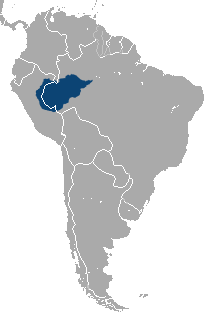 Coppery Titi (Callicebus cupreus) range